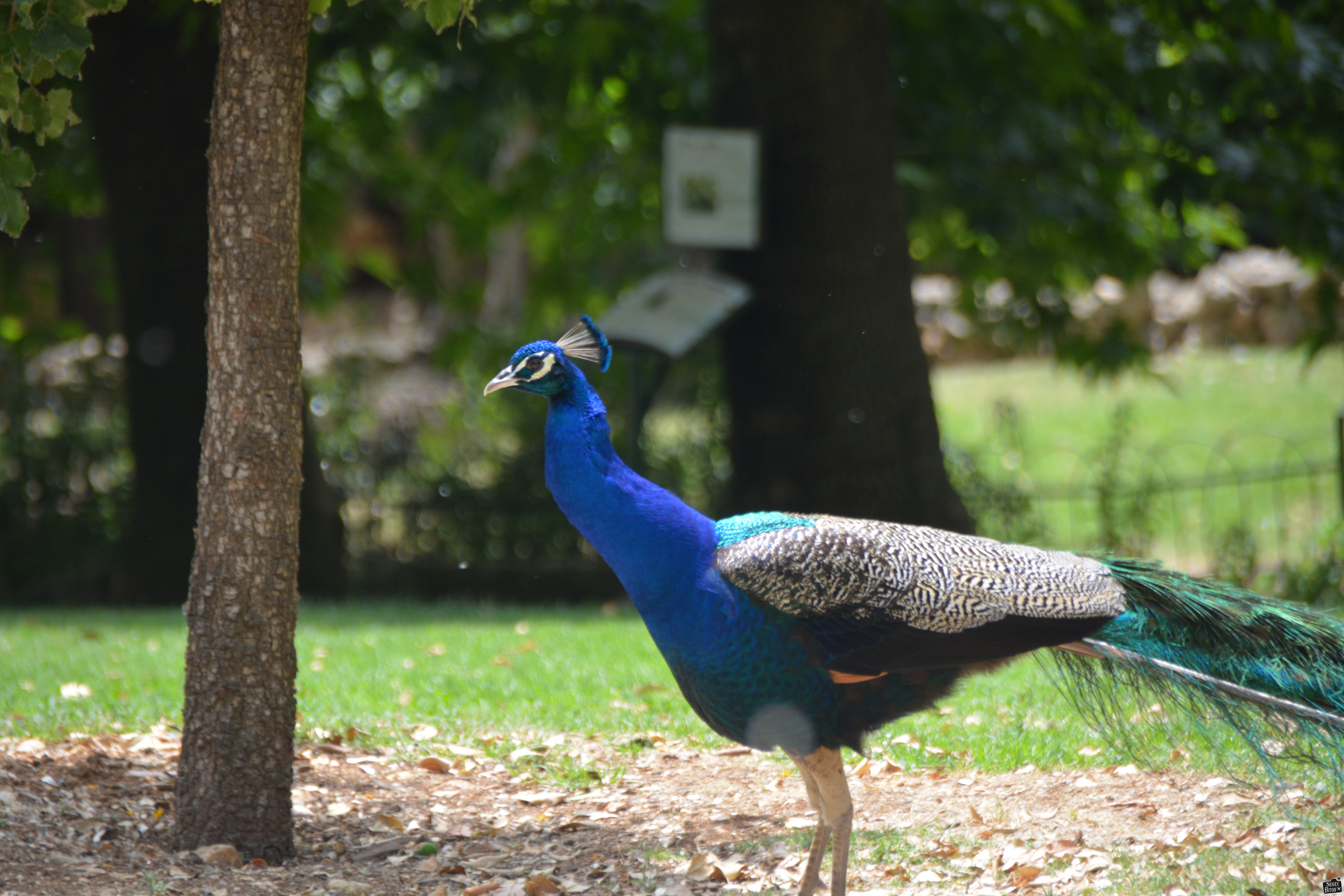 The Biblical Zoo in Jerusalem